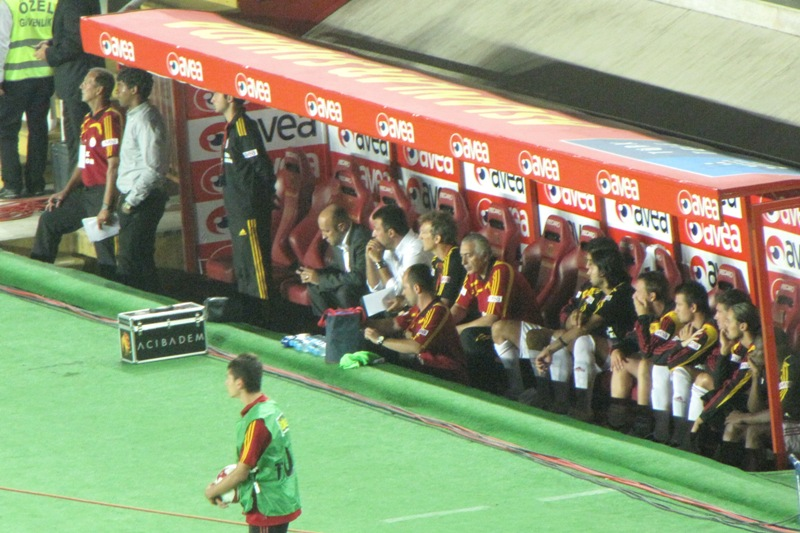 Galatasaray-Tobol European Cup 23.07.2009